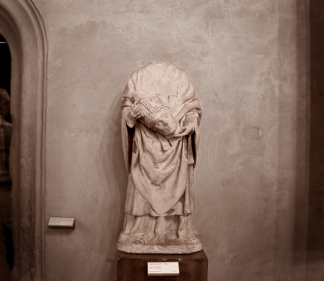 Sculpture of Saint Denis de Paris in The Musée de Cluny, Paris, France.